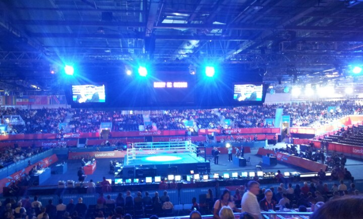 Barry McGuigan warming up the crowd @ London 2012 Boxing Arena (posted via FlickSquare)